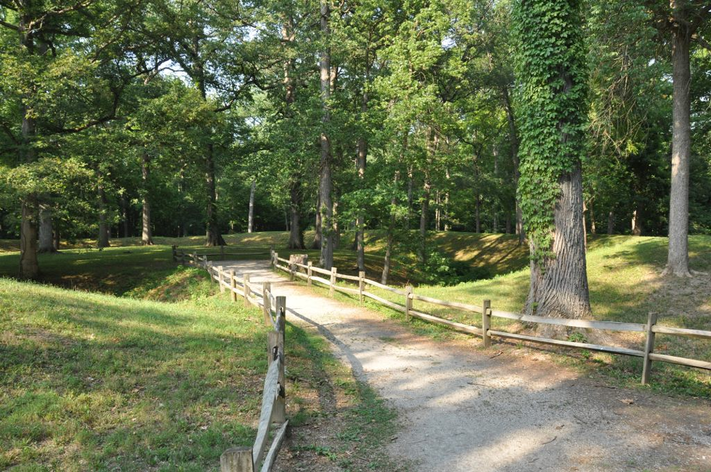 The "Great Mound" at Mounds State Park in Indiana.